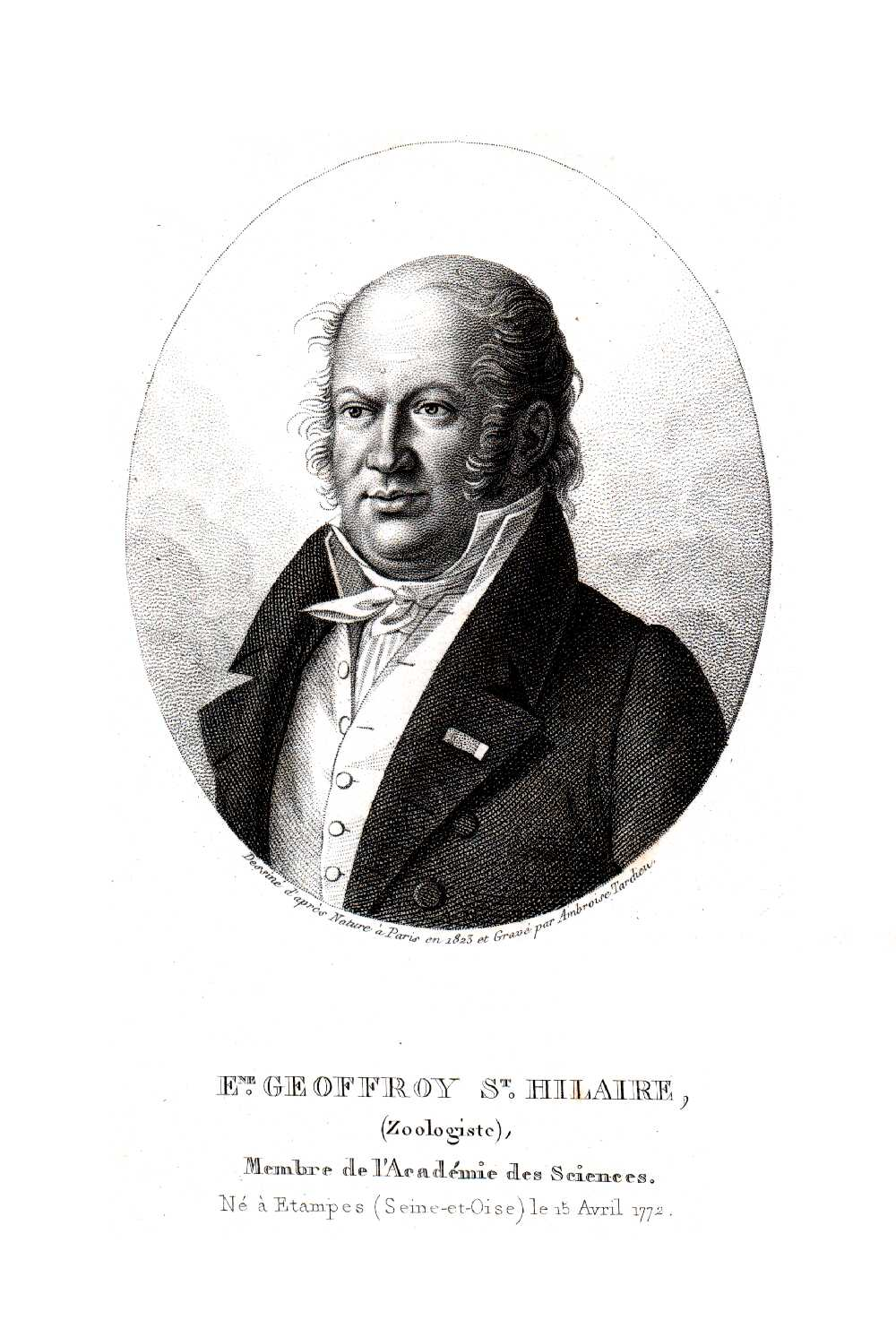 Scientist: Geoffroy Saint Hilaire, Etienne (1772 - 1844). Medium: Engraving. Original Dimensions: Graphic: 10.5 x 8.6 cm / Sheet: 21.4 x 14.7 cm.